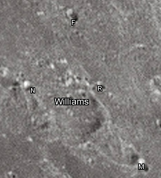 Williams lunar crater as seen from Earth with satellite craters labeled